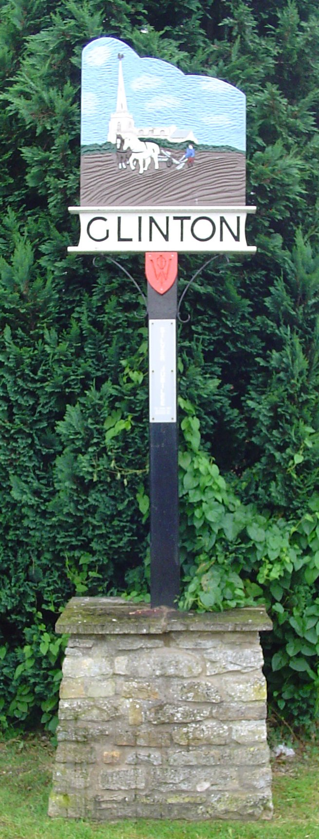 Signpost in Glinton